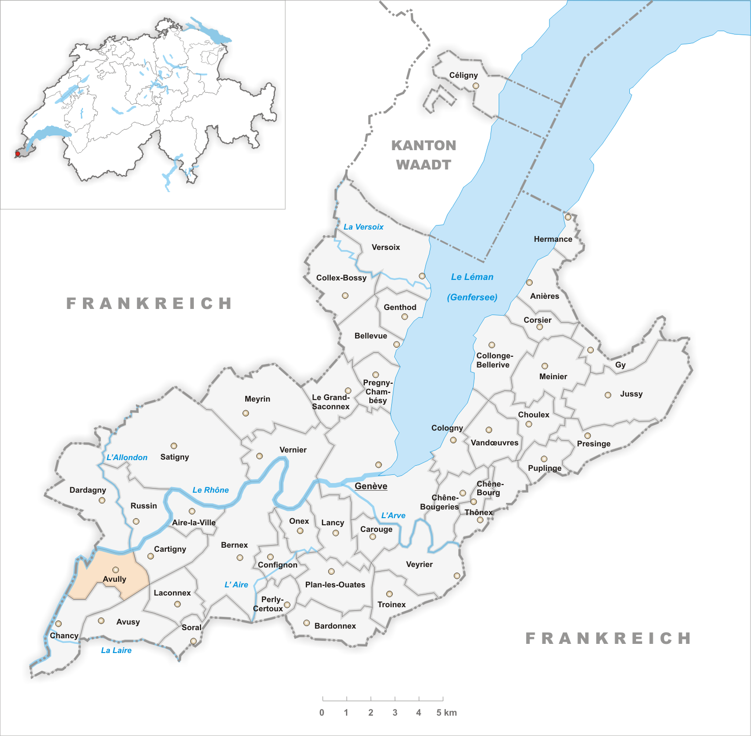 Municipality Avully